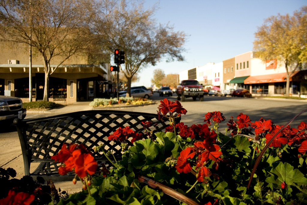 Downtown Stillwater at the intersection of 8th and Main St